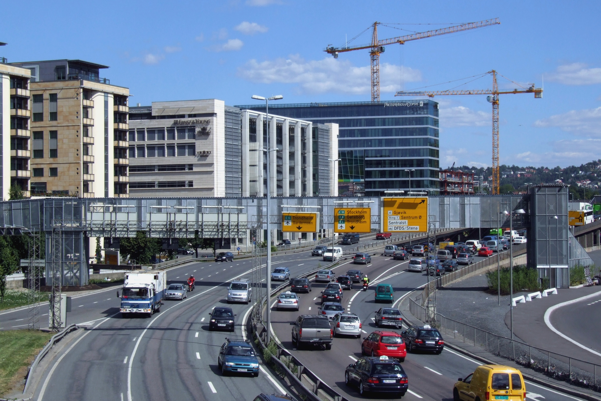 Traffic in Oslo (E18 Bjørvika)